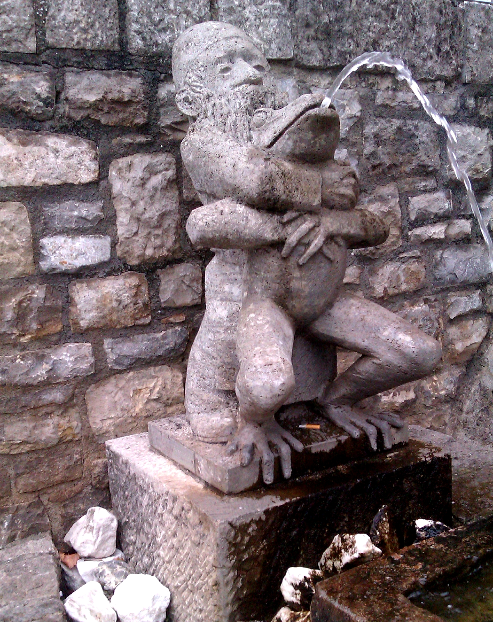 Skulptur 'Froschreiter' von Richard Rother